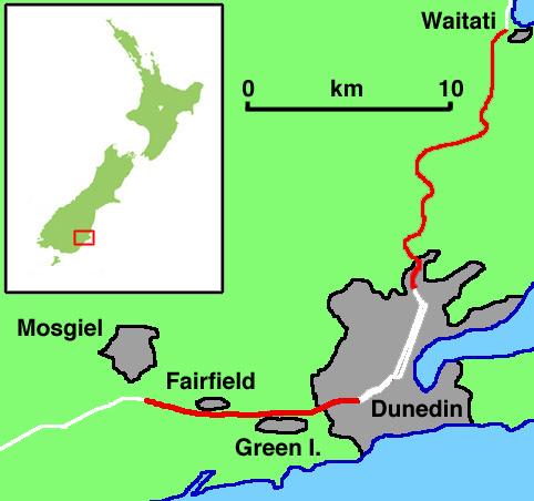 Map showing the Dunedin Northern and Southern Motorways, in southern New Zealand, drawn by User:Grutness based on a variety of local NZMS maps and road maps